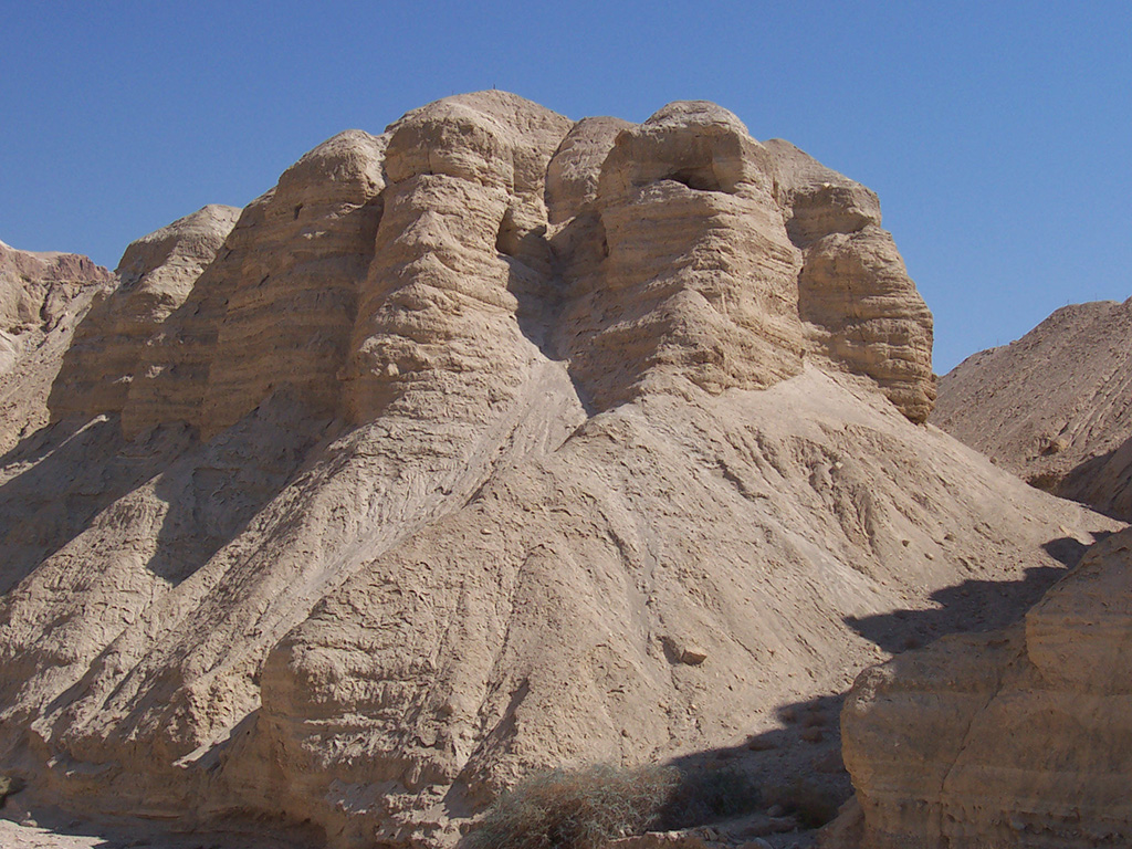 A view of caves 4Q and 10Q from Wadi Qumran